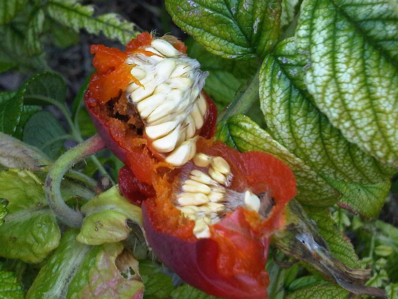 Japanese rose or Ramanas rose (Rosa rugosa) fruits with seeds in Putney Heath Common, England.